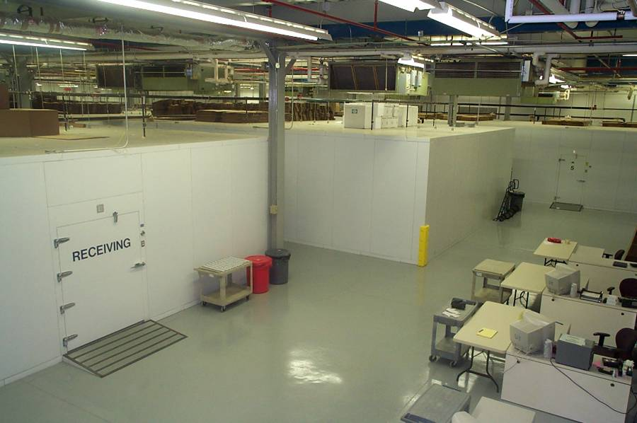 Interior of the U.S. Department of Defense Serum Repository (DoDSR), showing three of the facility's 15 walk-in freezers. In the foreground is the receiving freezer. Two of the remaining storage freezers appear in the background.